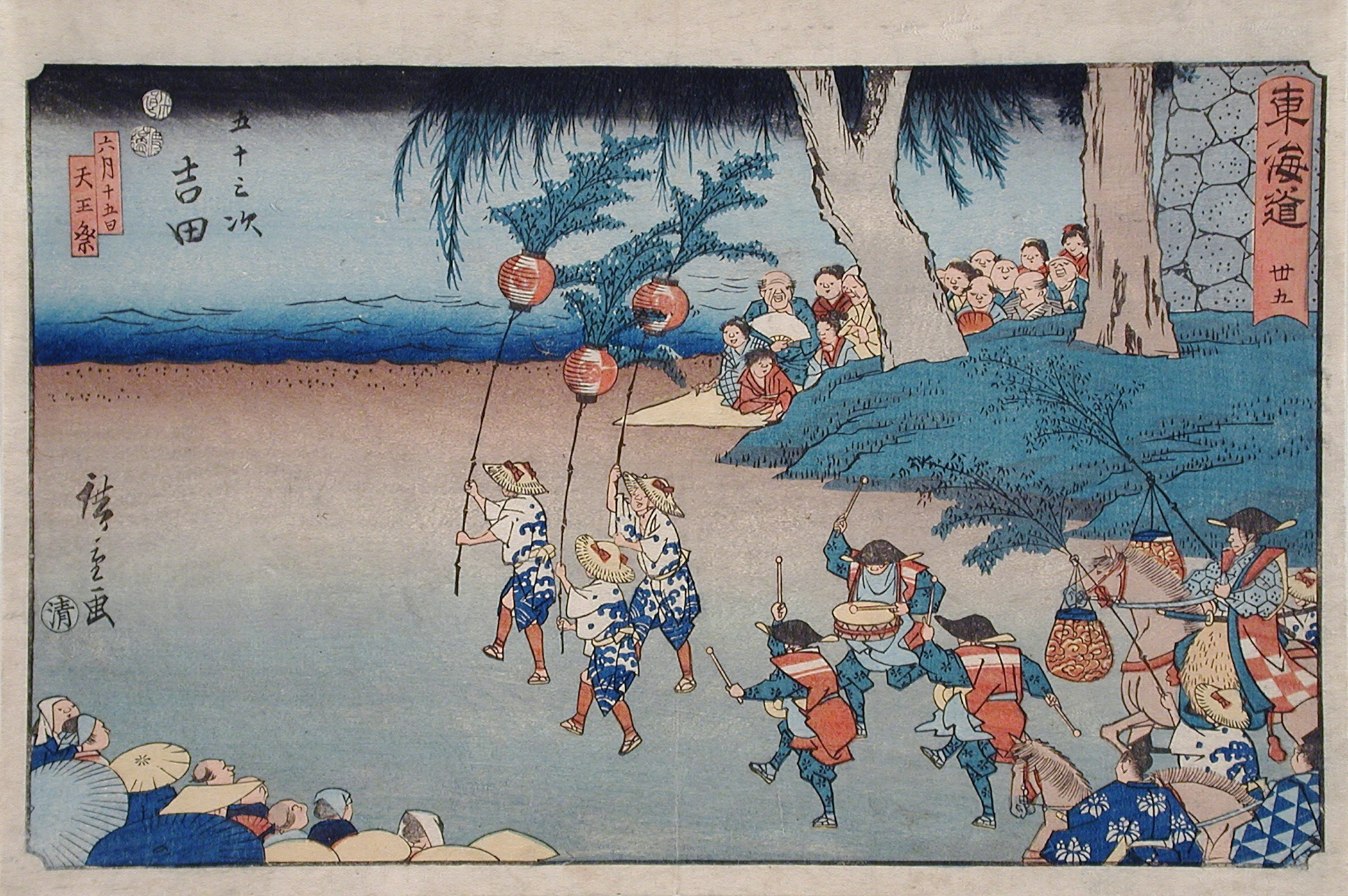 Japan, circa 1848-1850 Series: Fifty-three Stations of the Tokaido ("Marusei" or "Reisho Tokaido"), Number 35 Prints; woodcuts Color woodblock print Image: 8 9/16 x 13 3/4 in. (21.7 x 34.9 cm); Sheet: 9 11/16 x 14 1/4 in. (24.5 x 36.2 cm) Gift of Dr. Harvey Eagleson (M.66.35.23) Japanese Art